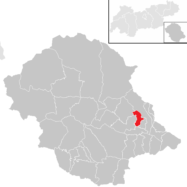 District Lienz